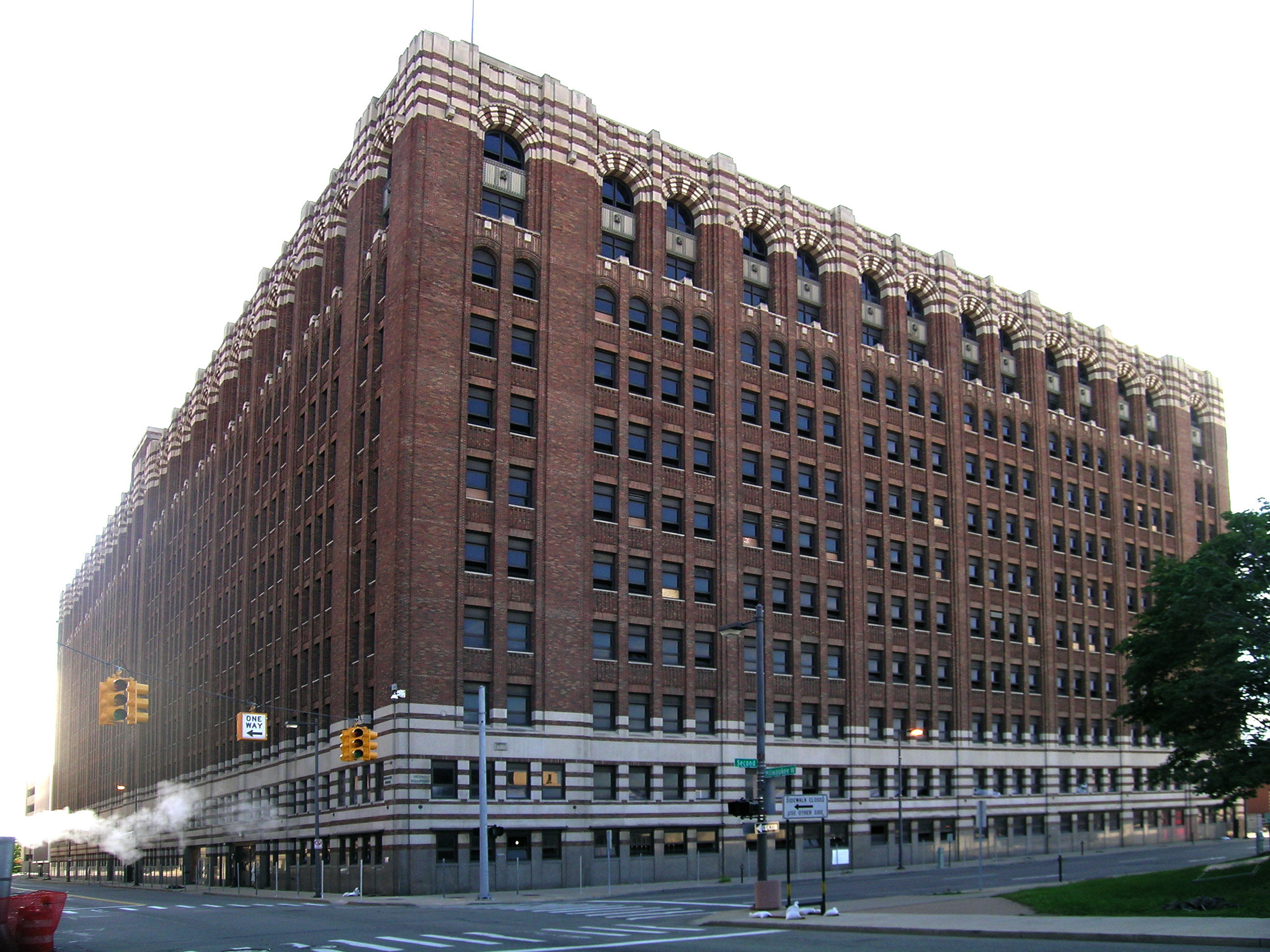 The Argonaut Building—former General Motors Research Laboratory, seen from the west — in the New Center area of Detroit, Michigan. Located across from Cadillac Place, and near the Fischer Building. Renamed in 2009 the Taubman Center for Design Education, of the College for Creative Studies. The Art Deco style high-rise, designed by Albert Kahn in 1930, is on the National Register of Historic Places in Detroit.